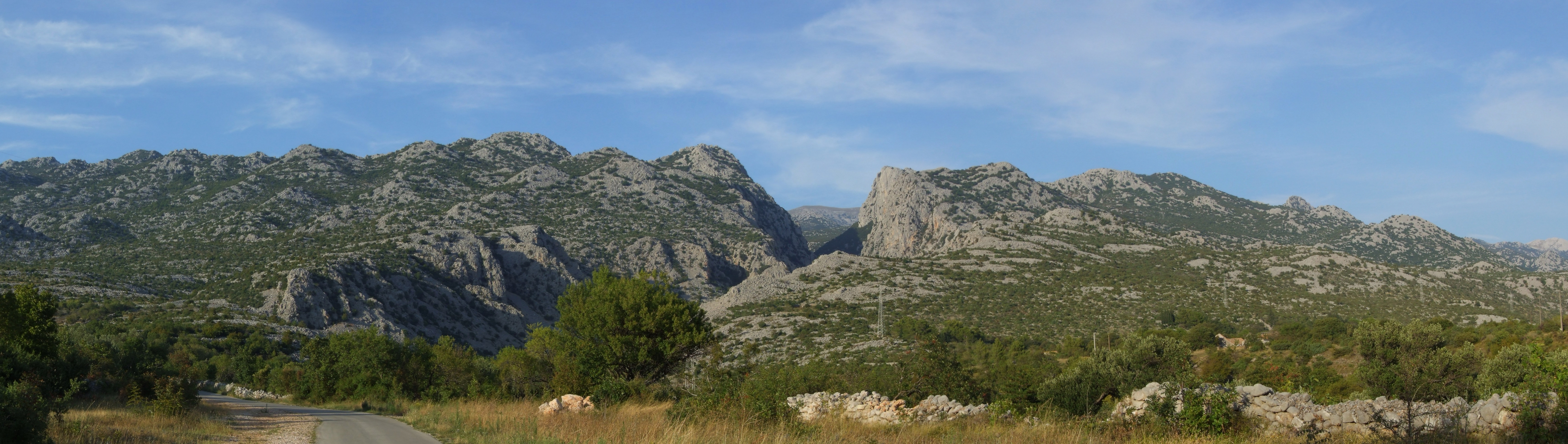 Entrance to Mala Paklenica canyon